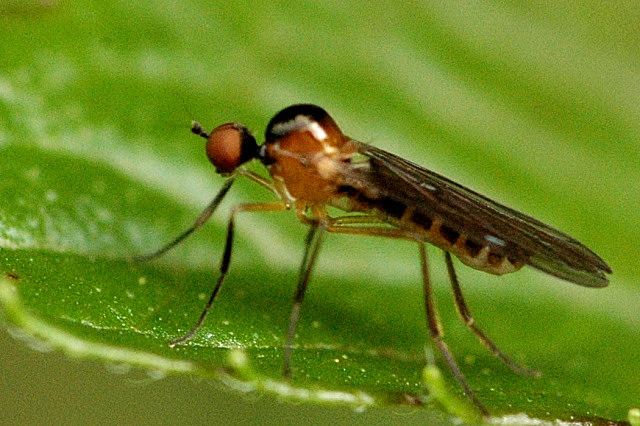 Picture taken in Commanster, Belgian High Ardennes . Species: Ocydromia glabricula